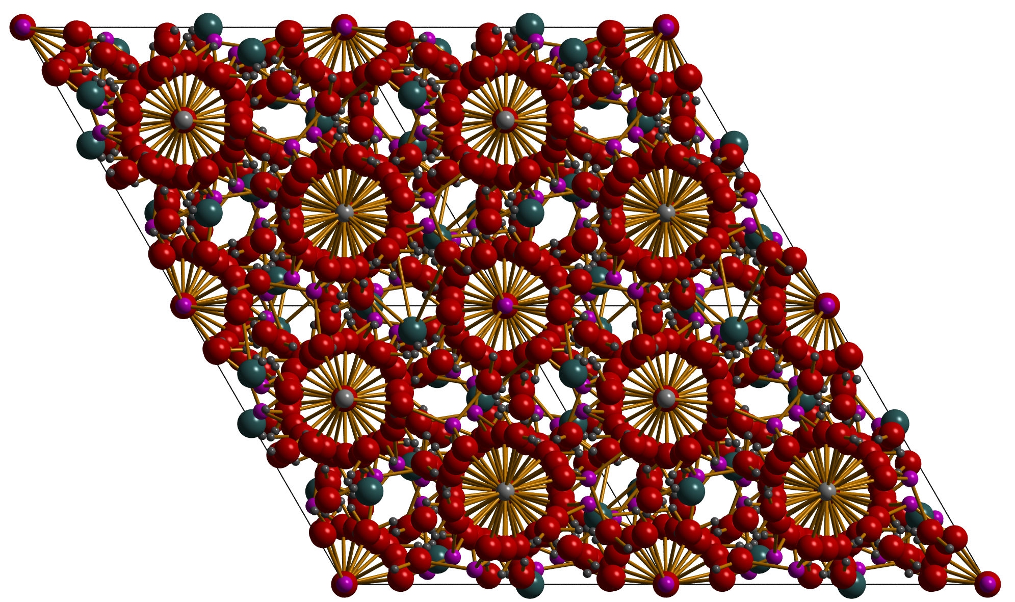 View down the c-axis of taranakite (four unit cells visible). Aluminum is shown in grey, phosphorous purple, oxygen red, and potassium green. Structural parameters taken from (based on S. Dick, U. Goßner, A. Weiß, C. Robl, G. Großmann, G. Ohms, T. Zeiske (1998). "Taranakite — the mineral with the longest crystallographic axis". Inorg. Chim. Acta 269 (1): 47–57)